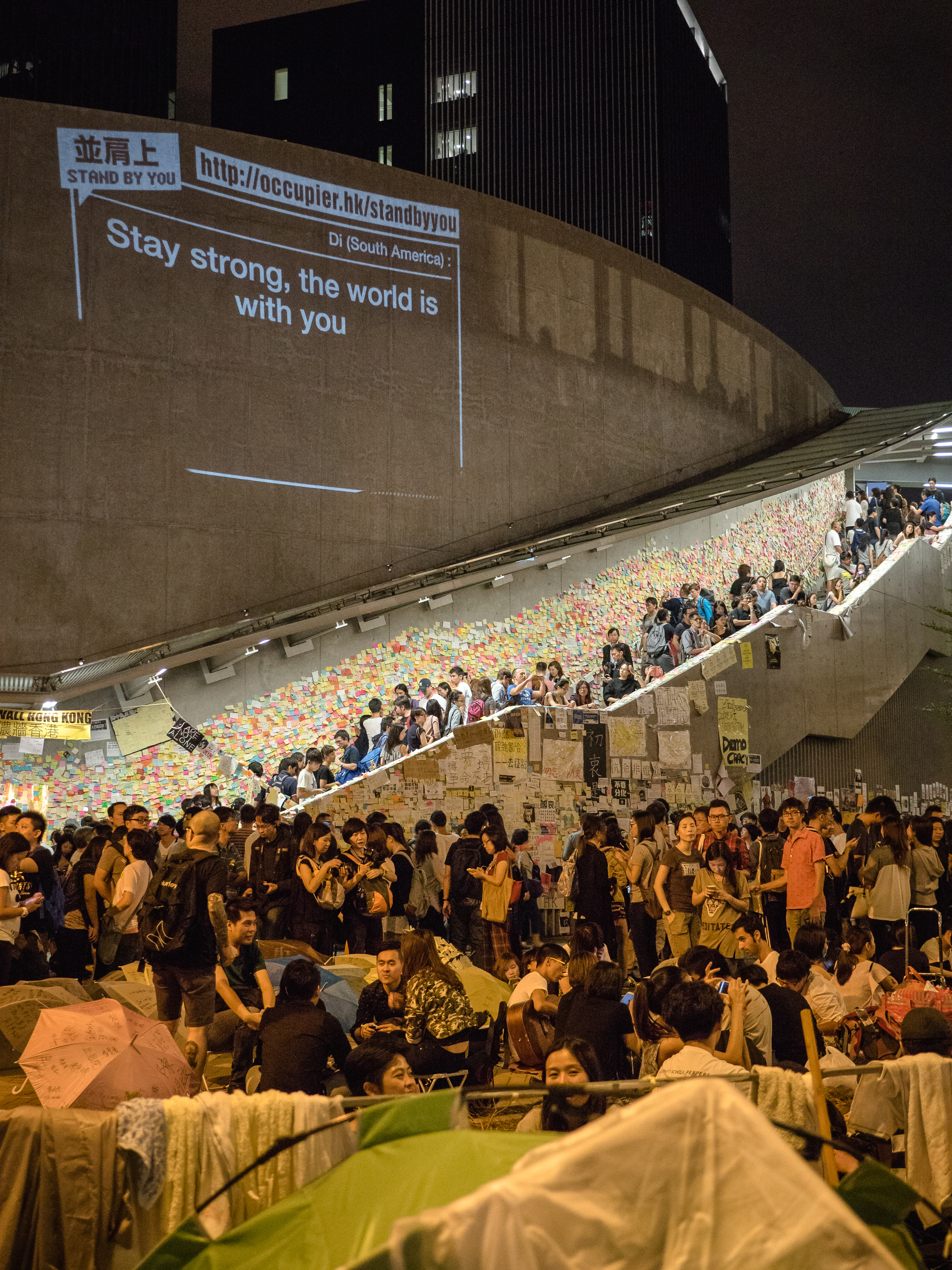 umbrellarevolution #occupycentral #hongkong #hk #admiralty #protest #night